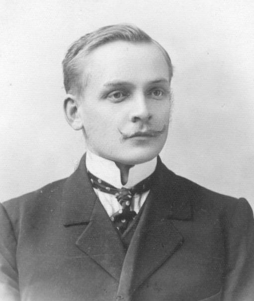 Belarusian national poet Yanka Kupala, 1908.